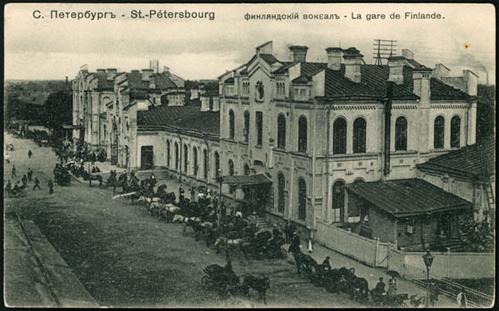 Saint Petersburg (Russia), Finlyandsky Rail Terminal.